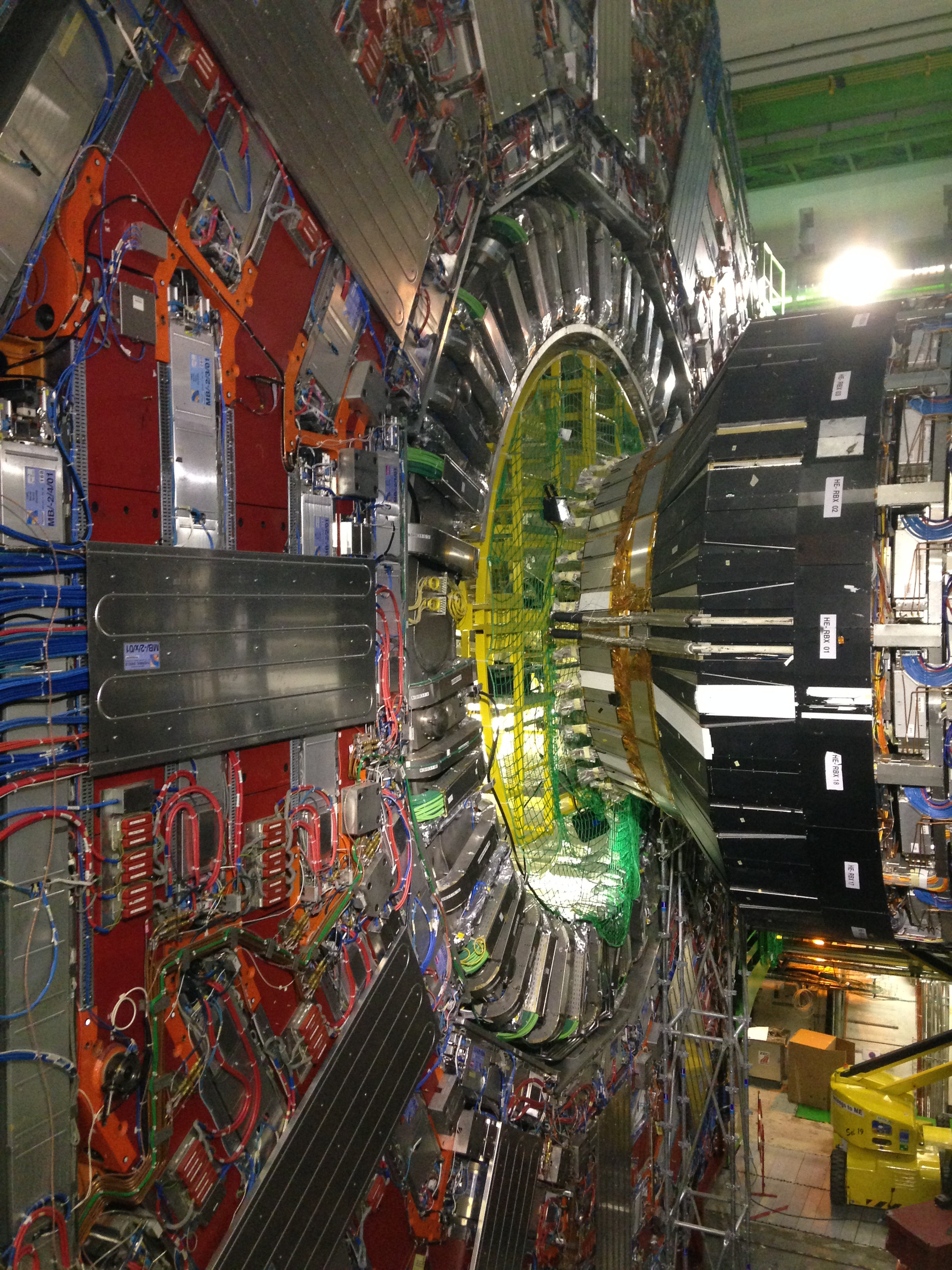 A view inside the CMS detecter in Cessy, France (24 April 2014)